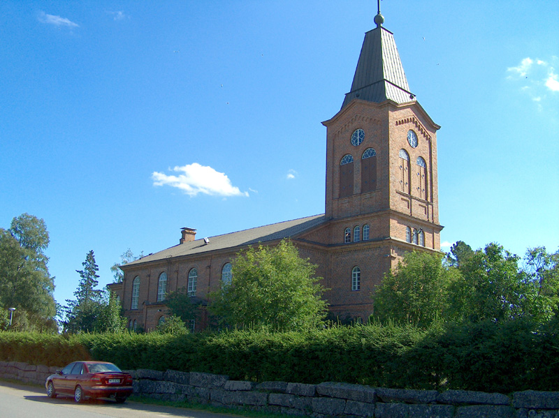 Church of Kalajoki, Finland